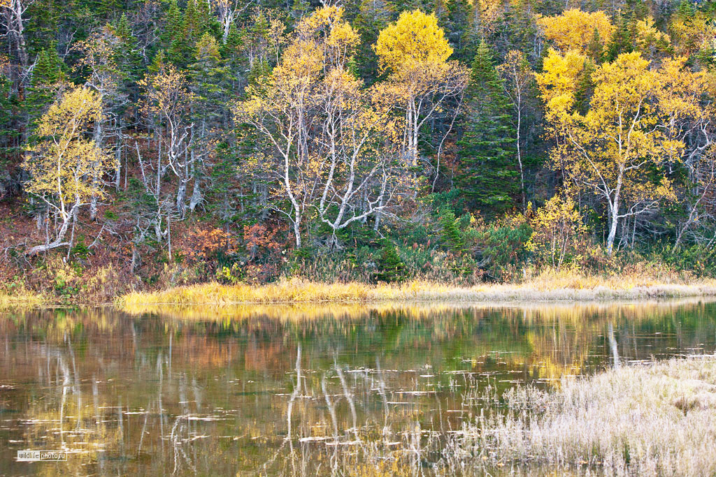 Abies sachalinensis var. gracilis (syn. A. gracilis), Kamchatka